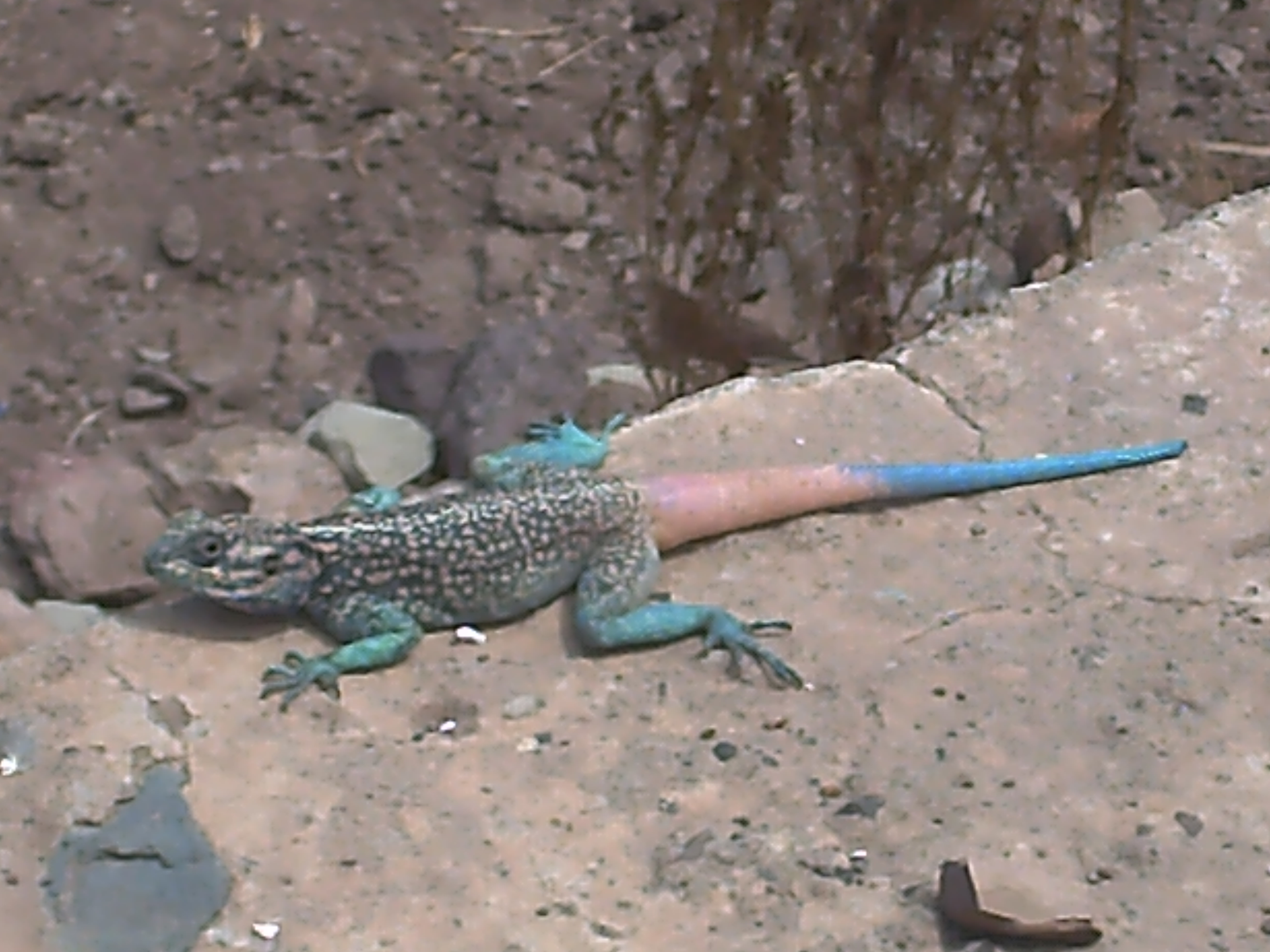 Lizard of Yemen with blue and pink colours